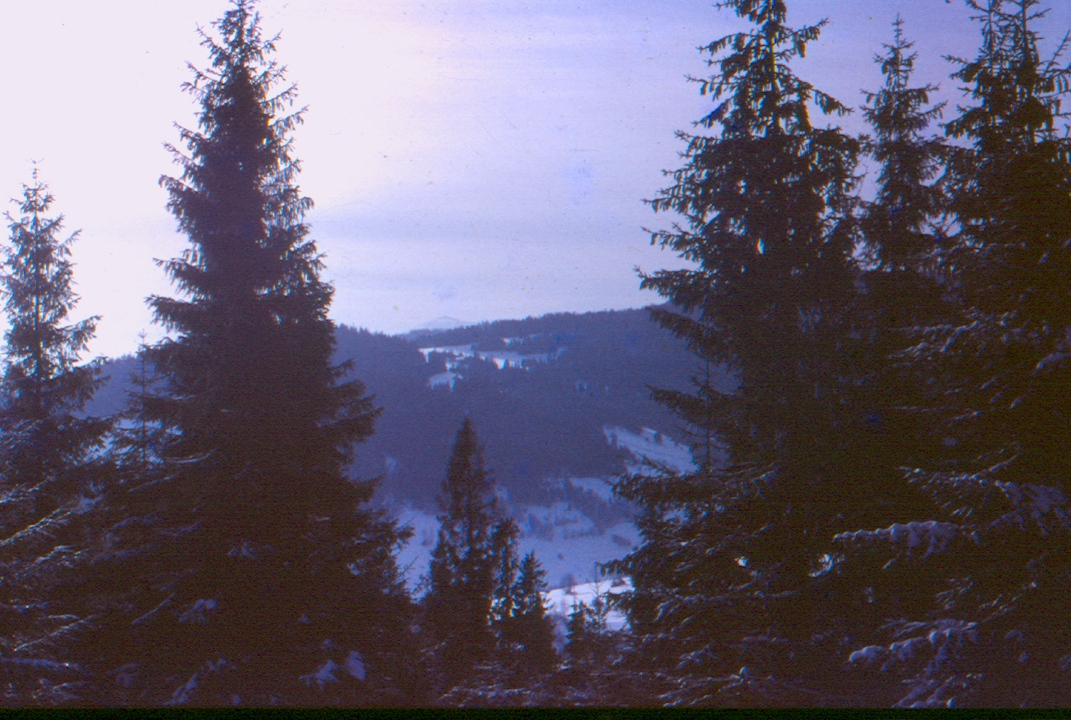 The view on the Pikuy. VerhnyeVysotske. Lviv region.